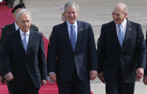 President George W. Bush and Israel’s Prime Minister Ehud Olmert smile as they join Israeli President Shimon Peres for arrival ceremonies Wednesday, Jan. 9, 2008, after President Bush’s arrival in Tel Aviv. White House photo by Chris Greenberg .